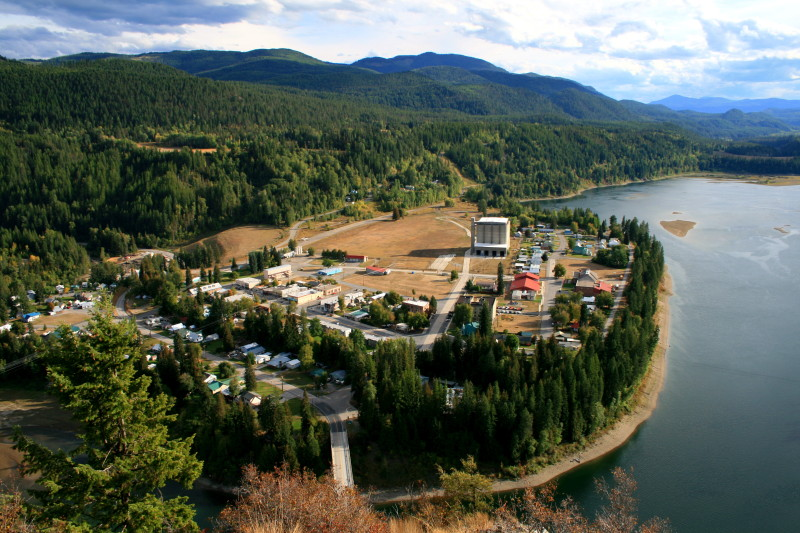 Photo of Metaline Falls and the Pend Oreille River — taken from atop of Washington Rock in September, in Washington state.